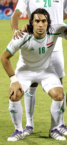 Samal Saeed, Iraqi player of Foolad FC